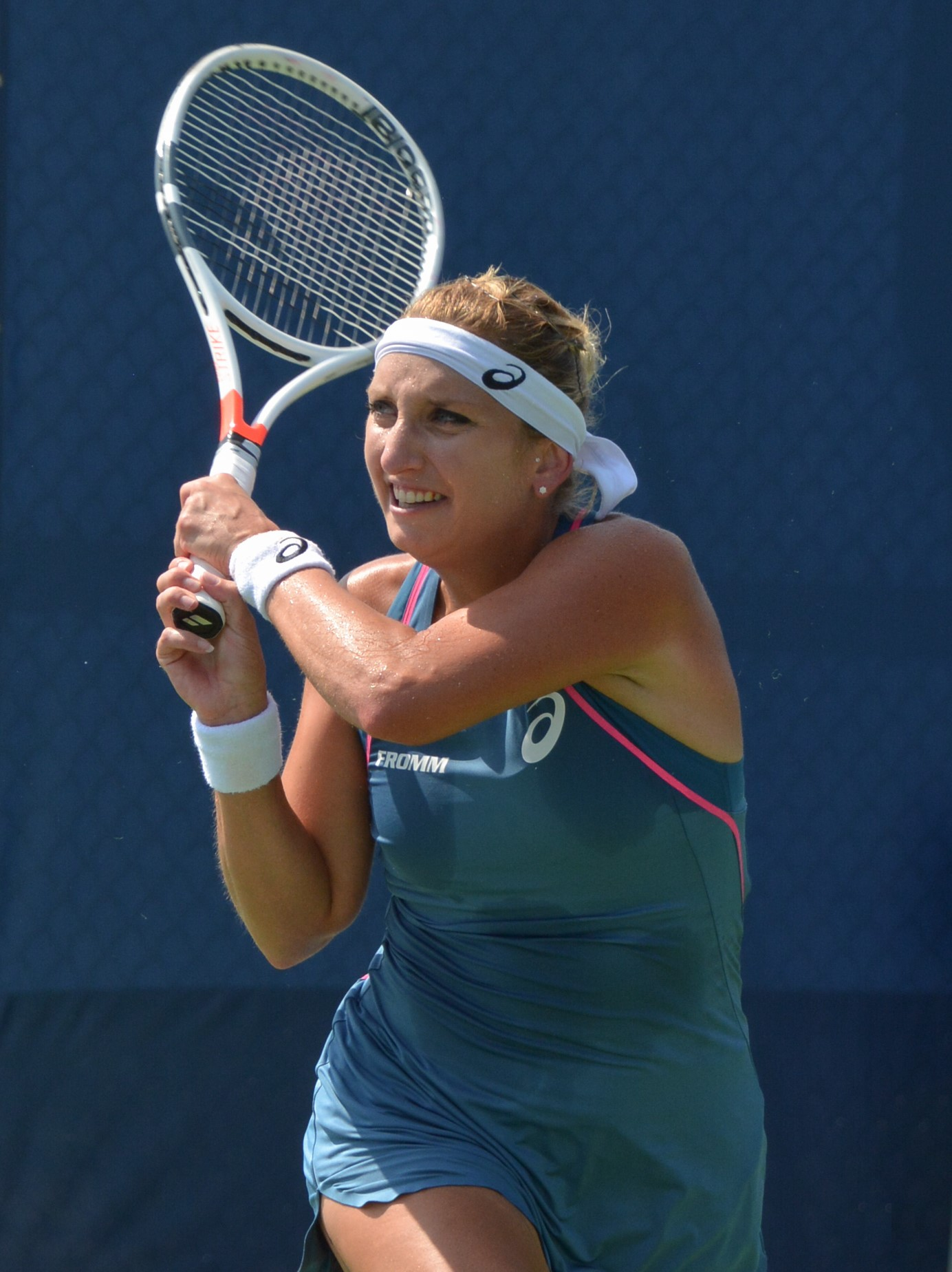 Day 2 of US Open 2018 – Tuesday, 28th August 2018.